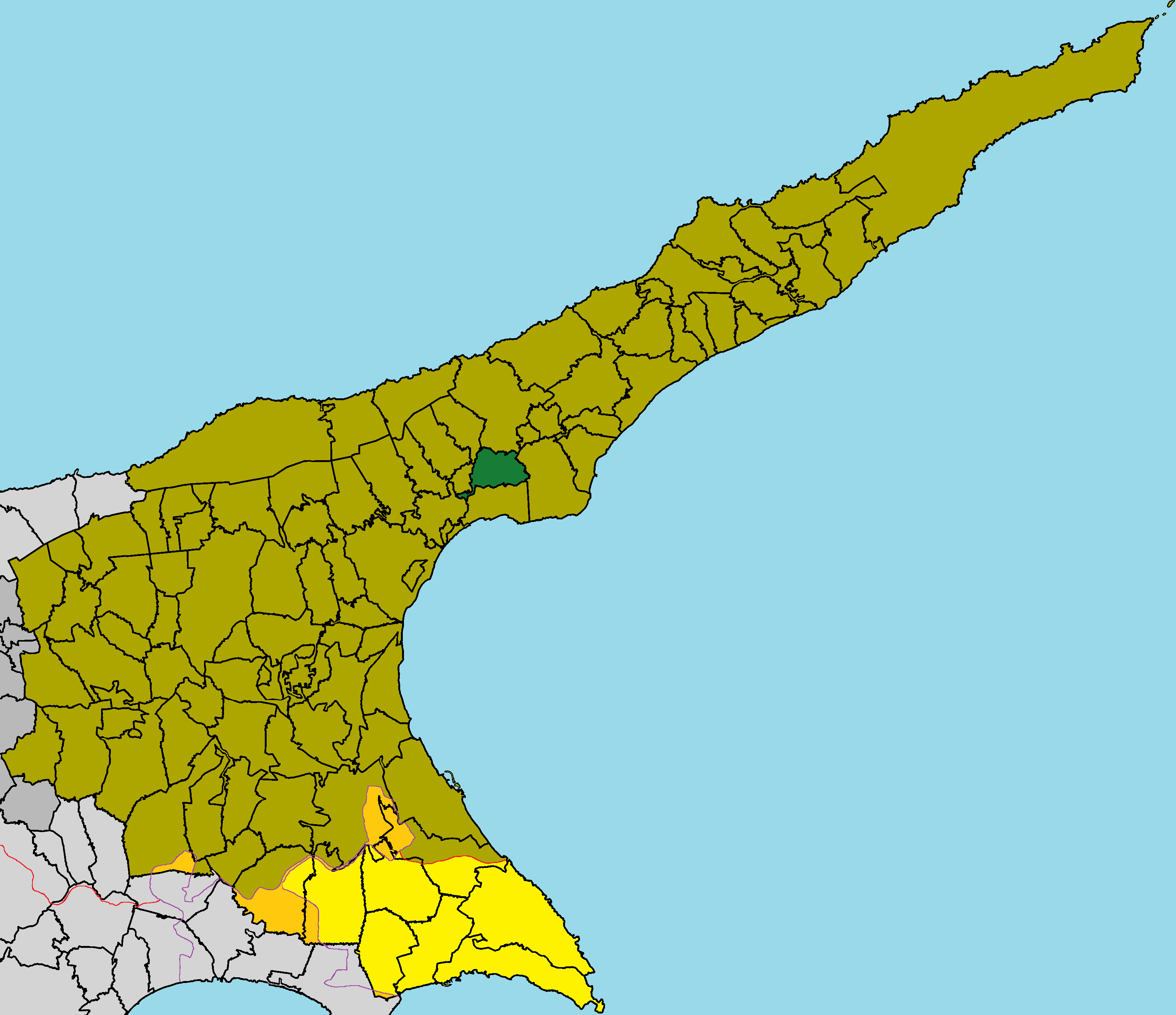 Patriki in Famagusta District (de jure).